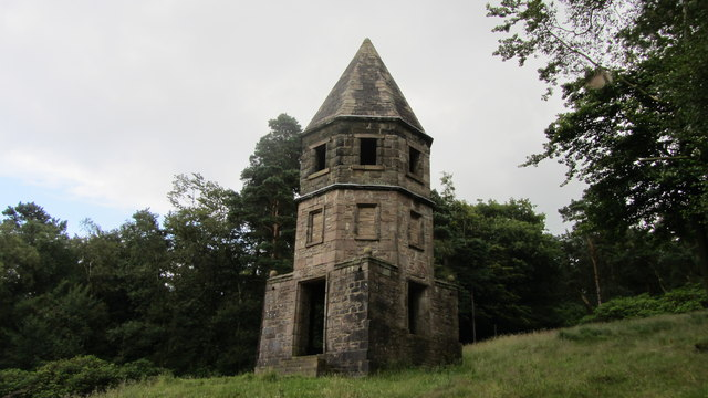 The Lantern folly, Lyme Park